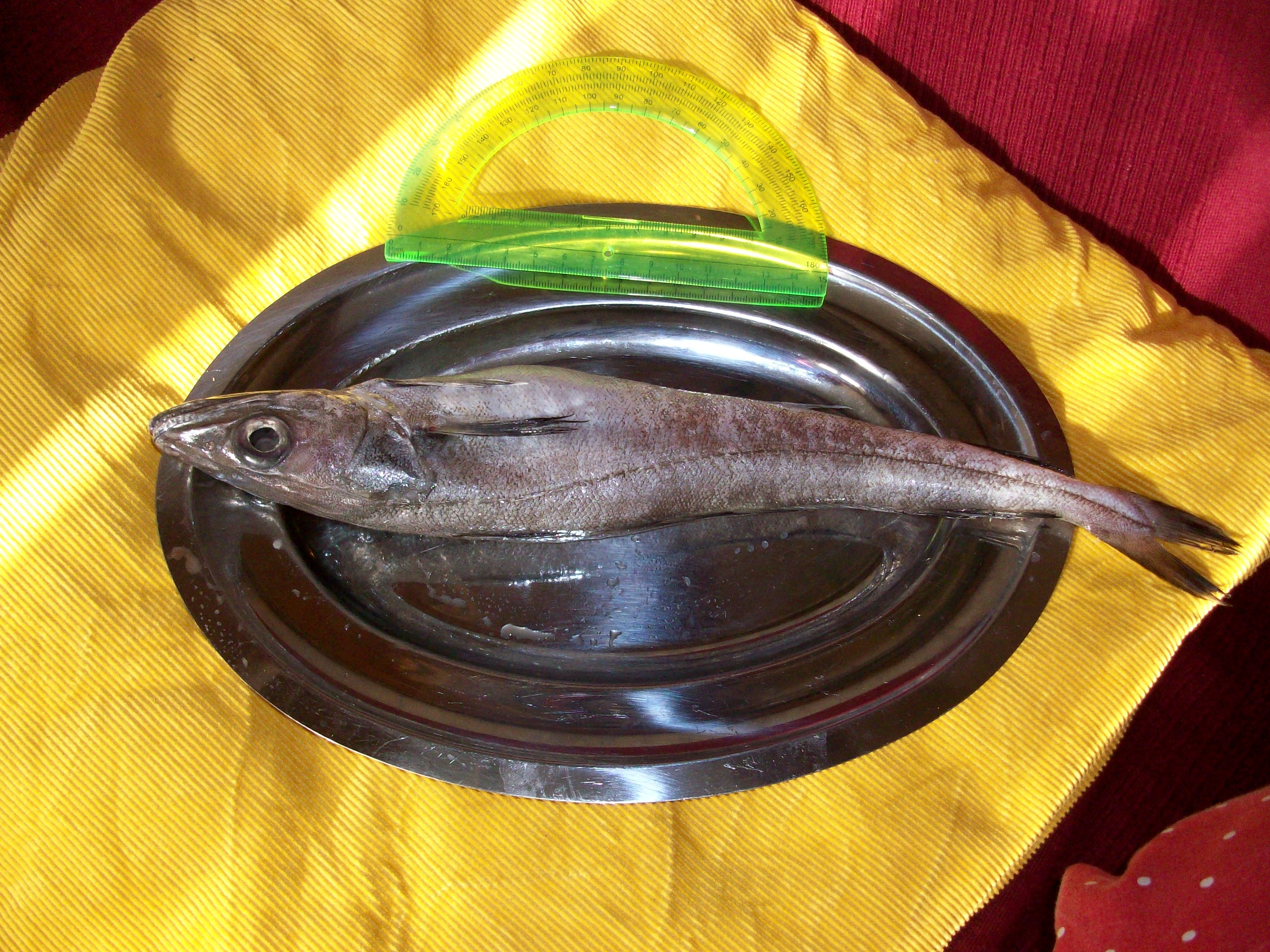 Merluccius merluccius fished in Mediterranean sea (the yellow centimeter is 15 cm)